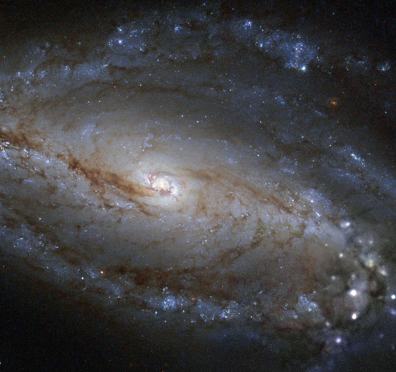 Ribbons of dust festoon the galaxy NGC 613 in this new image from the NASA/ESA Hubble Space Telescope. NGC 613 is classified as a barred spiral galaxy for the bar-shaped band of stars and dust crossing its intensely glowing centre. About two thirds of spiral galaxies show a characteristic bar shape like NGC 613 — our own galaxy appears to have one of these bars through its midline as well. NGC 613 lies 65 million light-years away in the constellation of Sculptor (The Sculptor). It was first noted by the English astronomer William Herschel in 1798 and later by John Louis Emil Dreyer, a Danish–Irish astronomer, who recorded the object in his 1888 New General Catalogue of Nebulae and Clusters of Stars — hence the letters "NGC". NGC 613's core looks bright and uniformly white in this image as a result of the combined light shining from the high concentration of stars packed into the core, but lurking at the centre of this brilliance lies a dark secret. As with nearly all spiral galaxies, a monstrous black hole resides at the heart of NGC 613. Its mass is estimated at about ten times that of the Milky Way's supermassive black hole and it is consuming stars, gas and dust. As this matter descends into the black hole's maw it radiates away energy and spews out radio waves. However, when looking at the the galaxy in the optical and infrared wavelengths used to take this image, there is no trace of the dark heart. A version of this image was entered into the Hubble's Hidden Treasures image processing competition by contestant Robert Gendler.